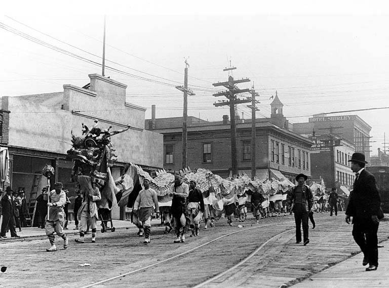 Parade on Fifth Avenue, Seattle, Washington, featuring Chinese dragon, ca. 1909. According to Paul Dorpat, the dragon's tail is crossing Pine Street; the image is looking roughly southeast. Photographer: Unknown Subjects (LCSH): Parades--Washington (State)--Seattle Hotel Shirley--Washington (State)--Seattle Fifth Avenue (Seattle, Wash.) Central business districts--Washington (State)--Seattle Digital Collection: Alaska-Yukon-Pacific Exposition Collection Item Number: SEA1633 Persistent URL: University of Washington Libraries. Digital Collections [#//content.lib.washington.edu%20